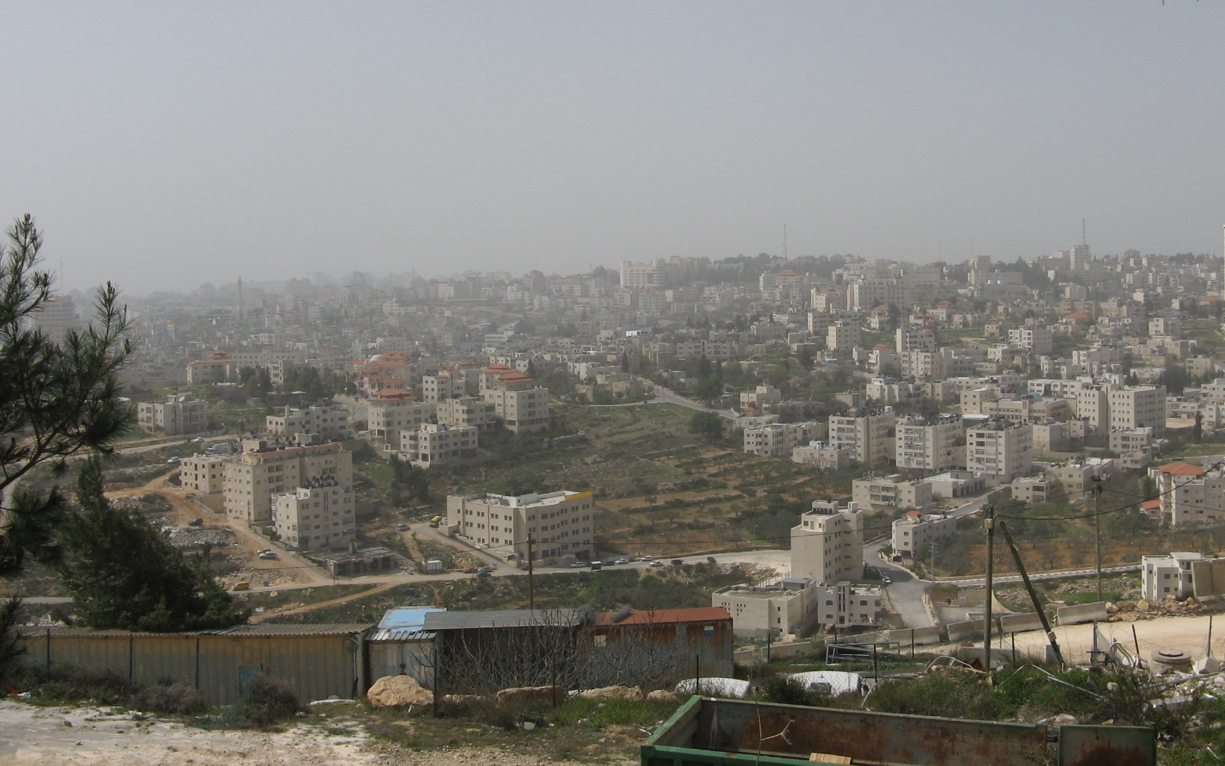 Al-Bireh and Ramallah from Psagot